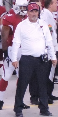 Arizona Cardinals tight ends coach Rick Christophel.